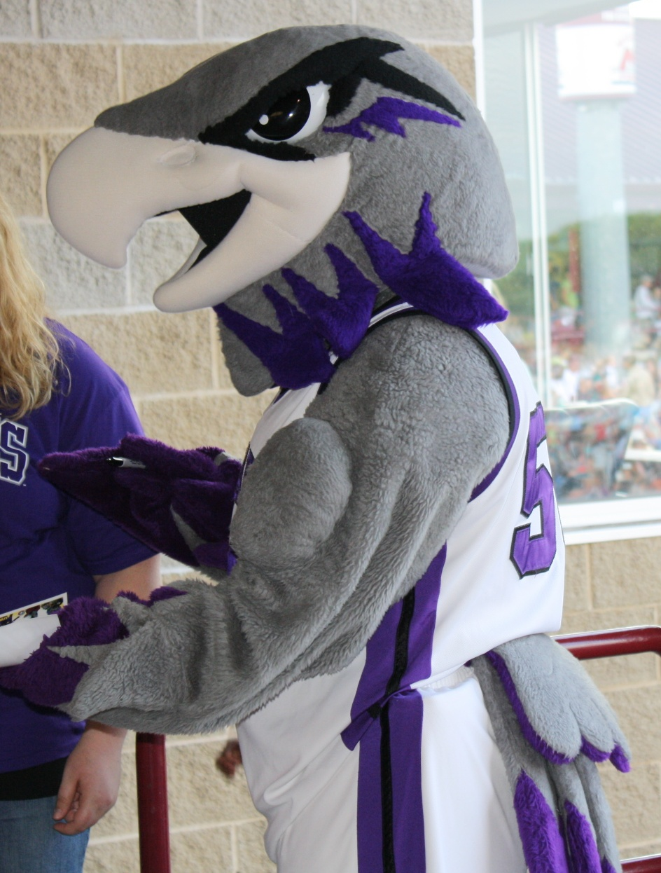 The mascot for the University of Wisconsin-Whitewater at the Wisconsin Timber Rattlers mascot (Fang's) birthday party.